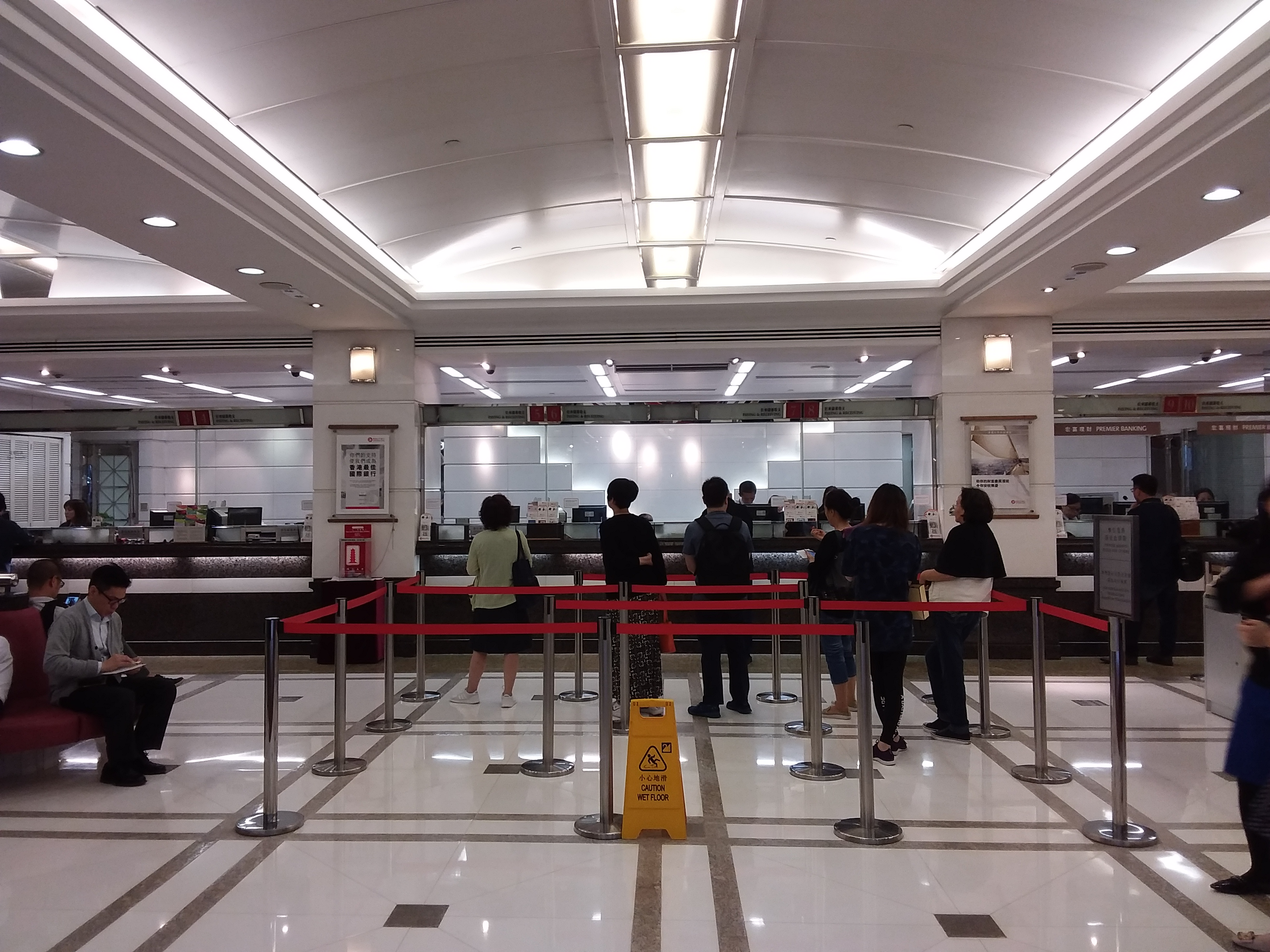 HK SW 上環 Sheung Wan 皇后大道 Queen's Road 華僑永亨銀行 OCBC Wing Hang Bank Building shop in October 2018